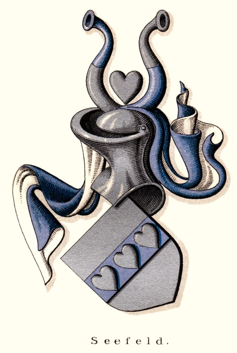 Coat of arms of the Seefeld family